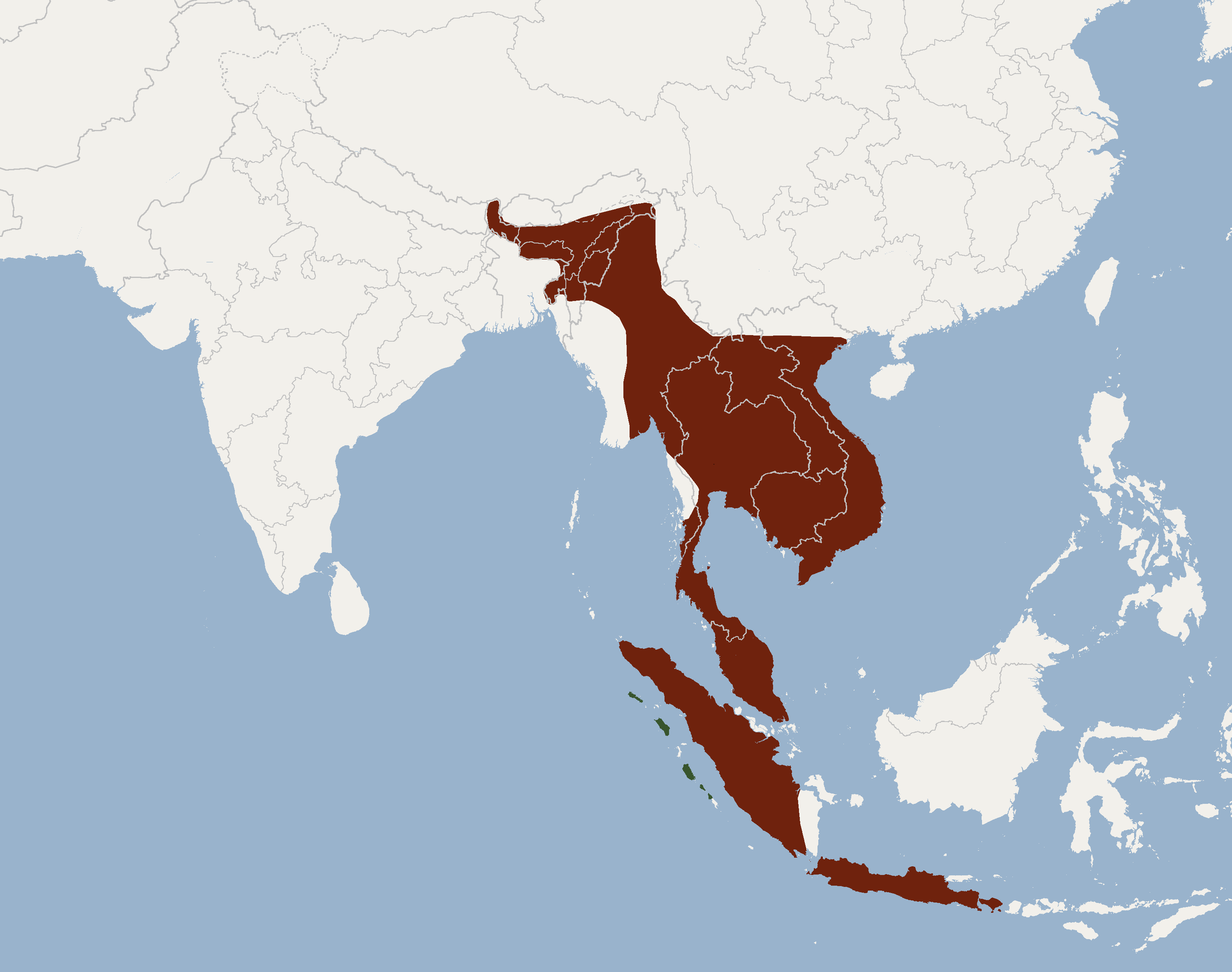 According to . Subspecies range: in brown M.s.sobrinus, in green M.s.fraternus.